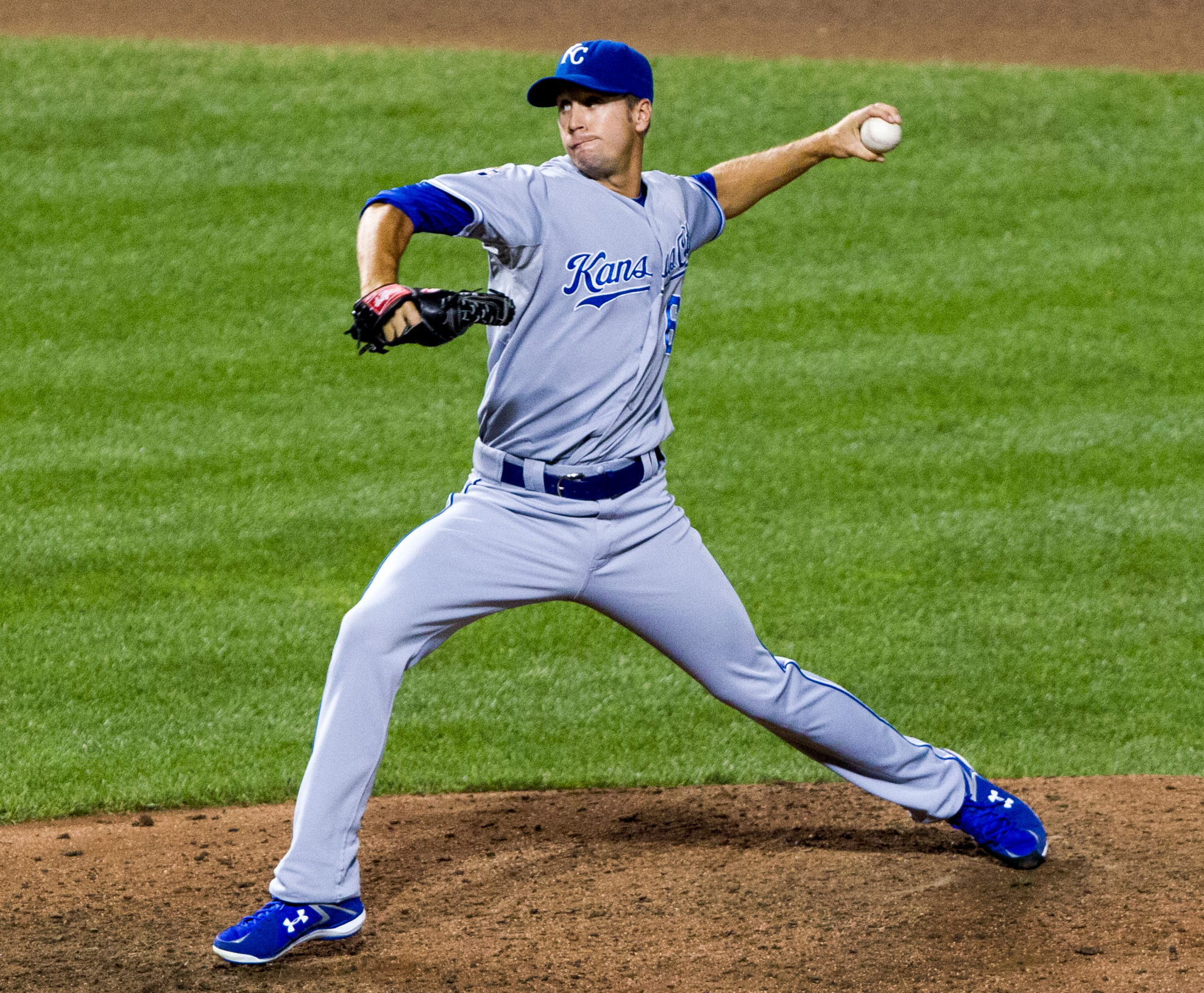 Kansas City Royals pitcher Everett Teaford – Royals at Orioles August 10, 2012